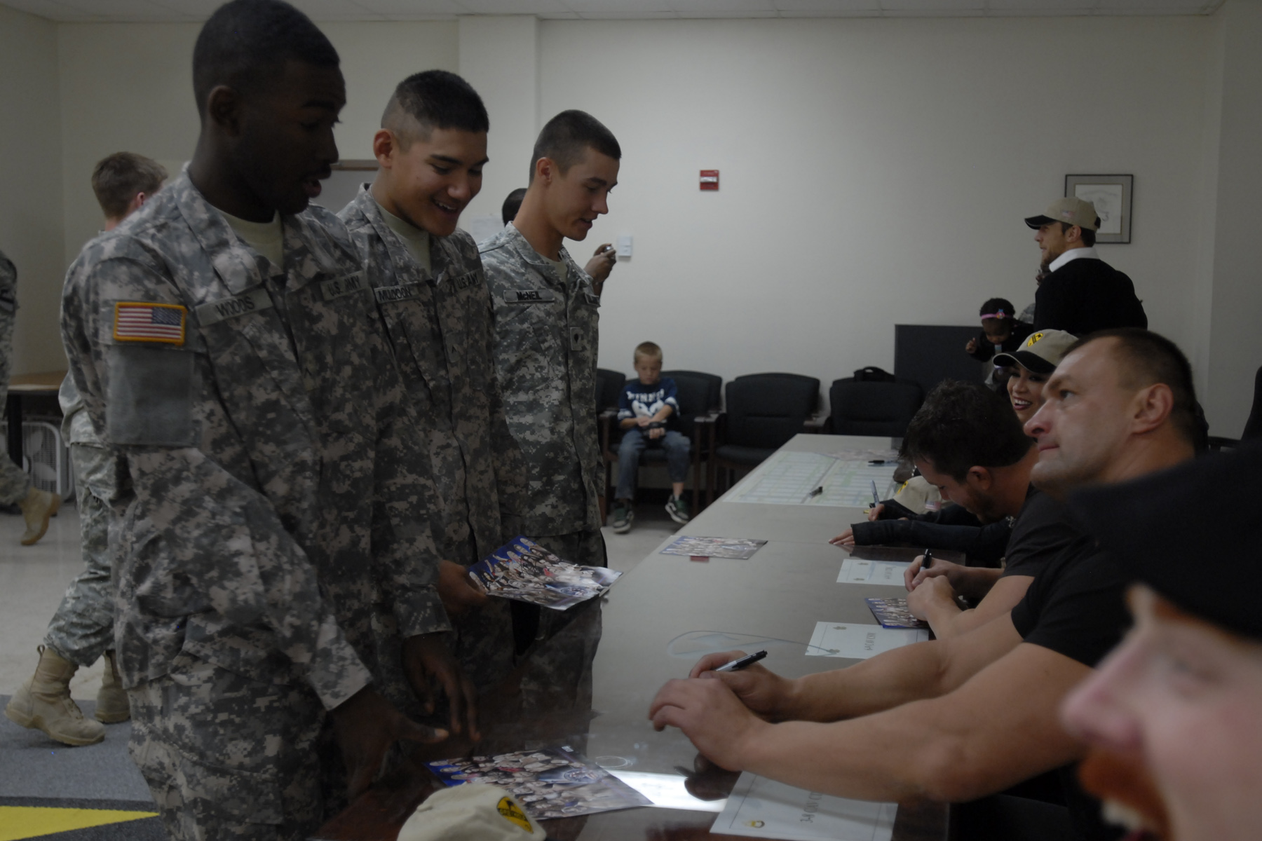 A line of Soldiers from 3rd Brigade Combat Team, 1st Cavalry Division, wait for autographs from World Wrestling Entertainment wrestlers on Fort Hood, Dec. 11.